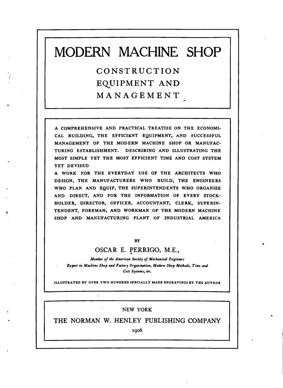 Modern machine shop, title page 1906